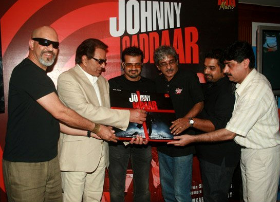 Music launch function of Johnny Gaddaar